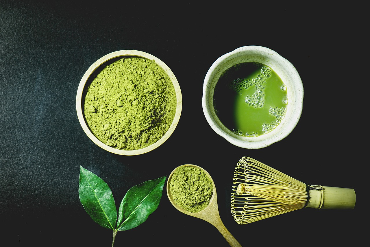 This is a layout of matcha tea, with powder, and the leaf.